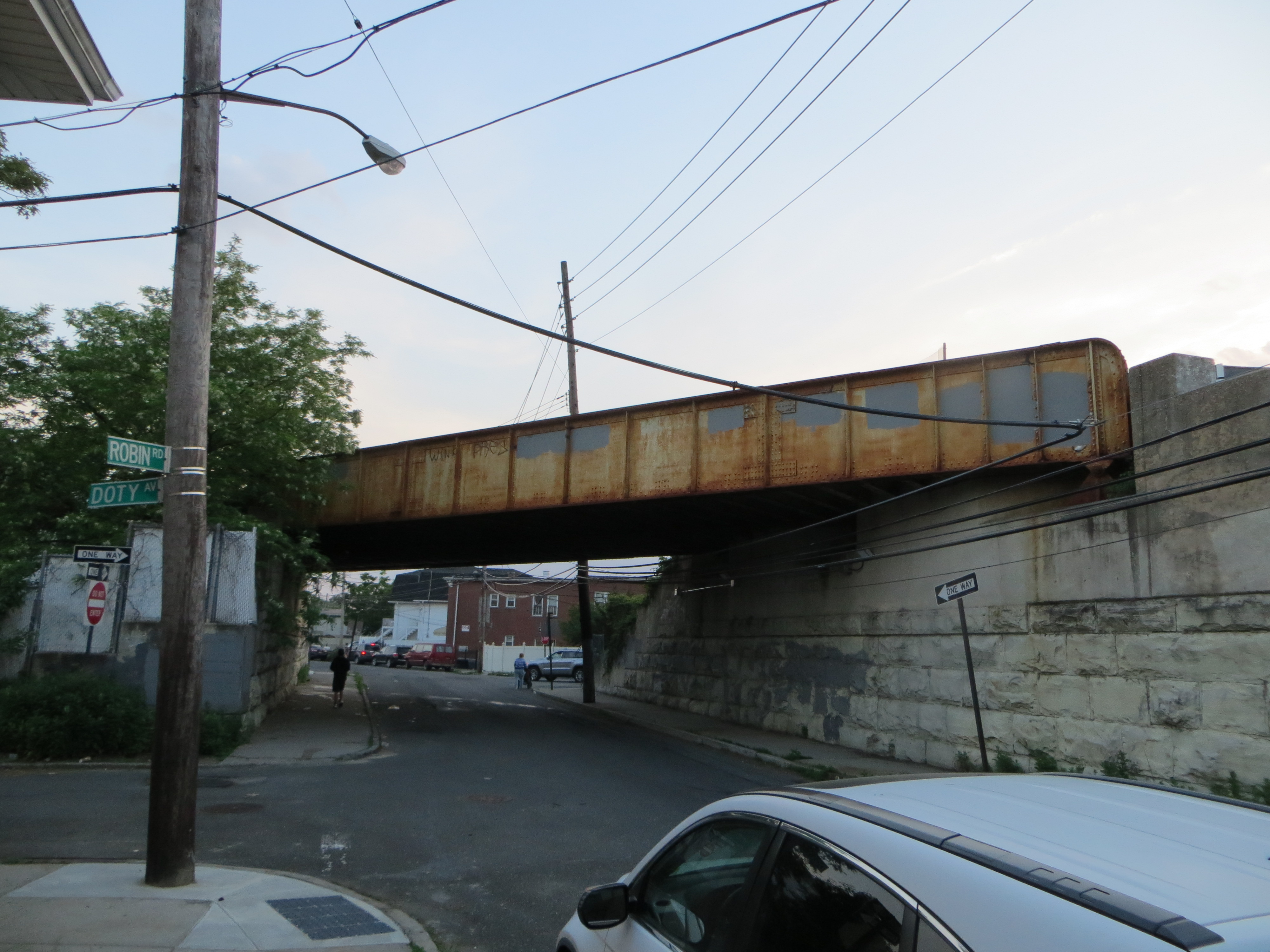 This line is completely obliterated here at the corner of Robin Road and Doty Avenue in Staten Island. The only thing that remains of the railroad is this bridge. The abutment is dated 1936. Oh, there's a line of apartments north and south obviously built by whomever bought the railroad's right of way. So you can see where the railroad went, but there's otherwise nothing besides this bridge.